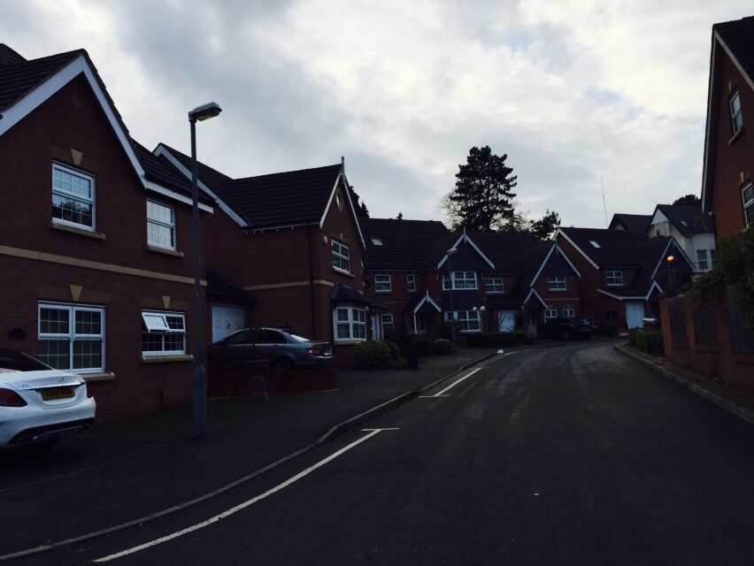 Street in Handsworth Wood, Birmingham